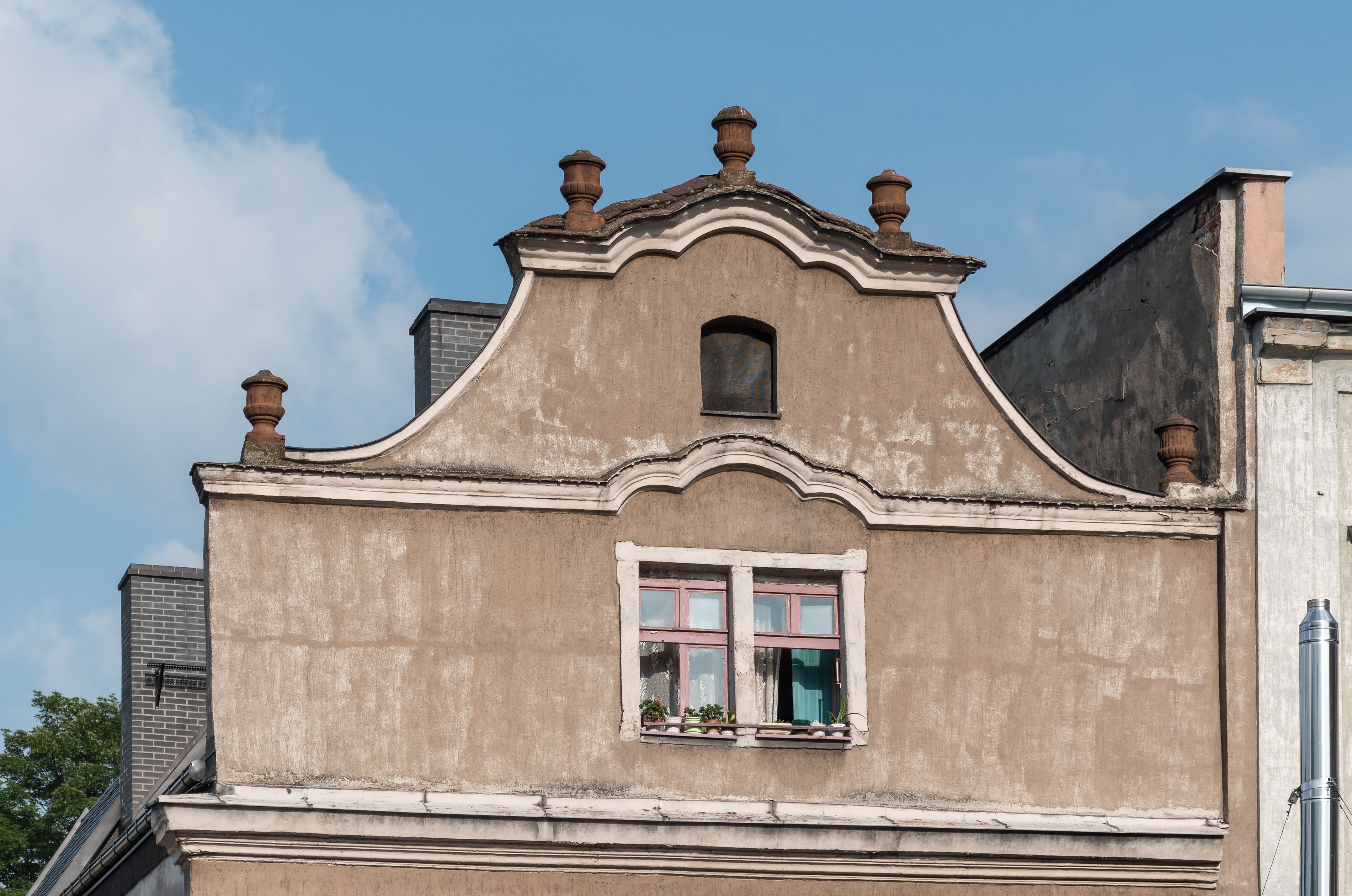 27 Piastów Street in Nowa Ruda